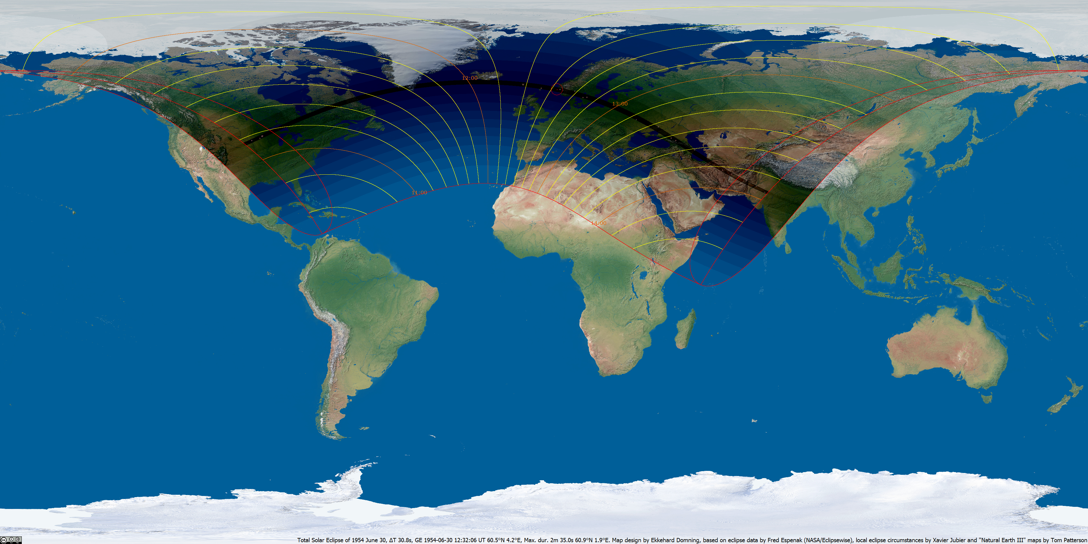 Global map of the Solar eclipse Scale 1° = 10px